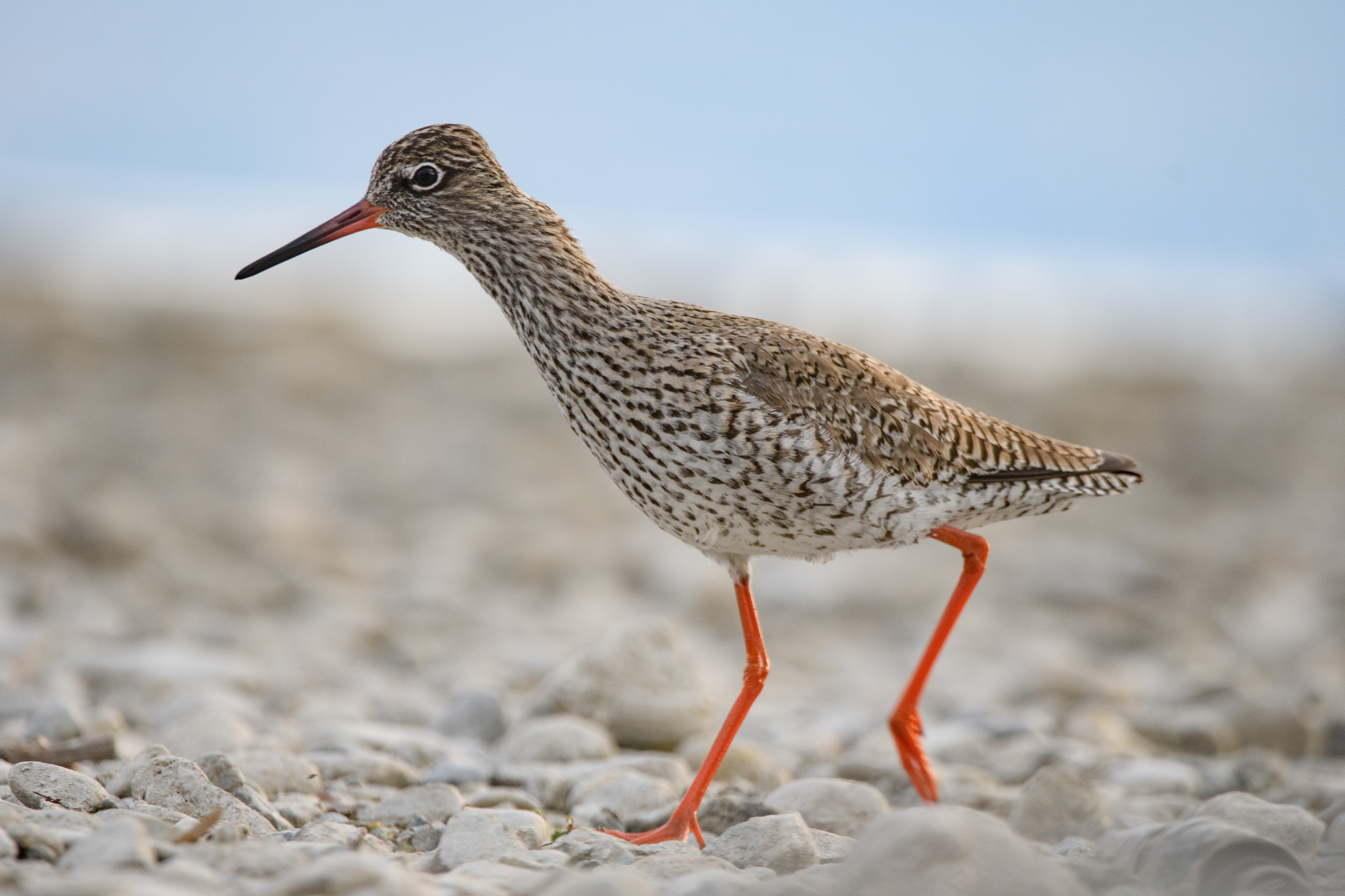 Redshank at the beach of lake geneva.